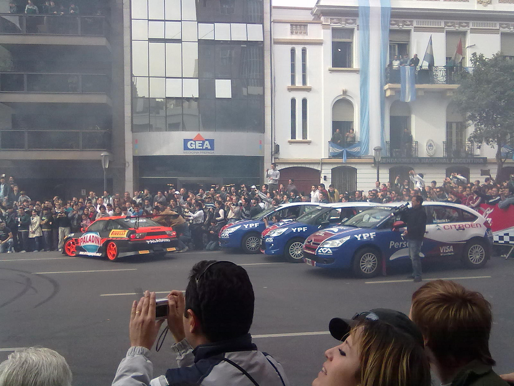 Rally Argentina runners doing a show in Cordoba city, Argentina.